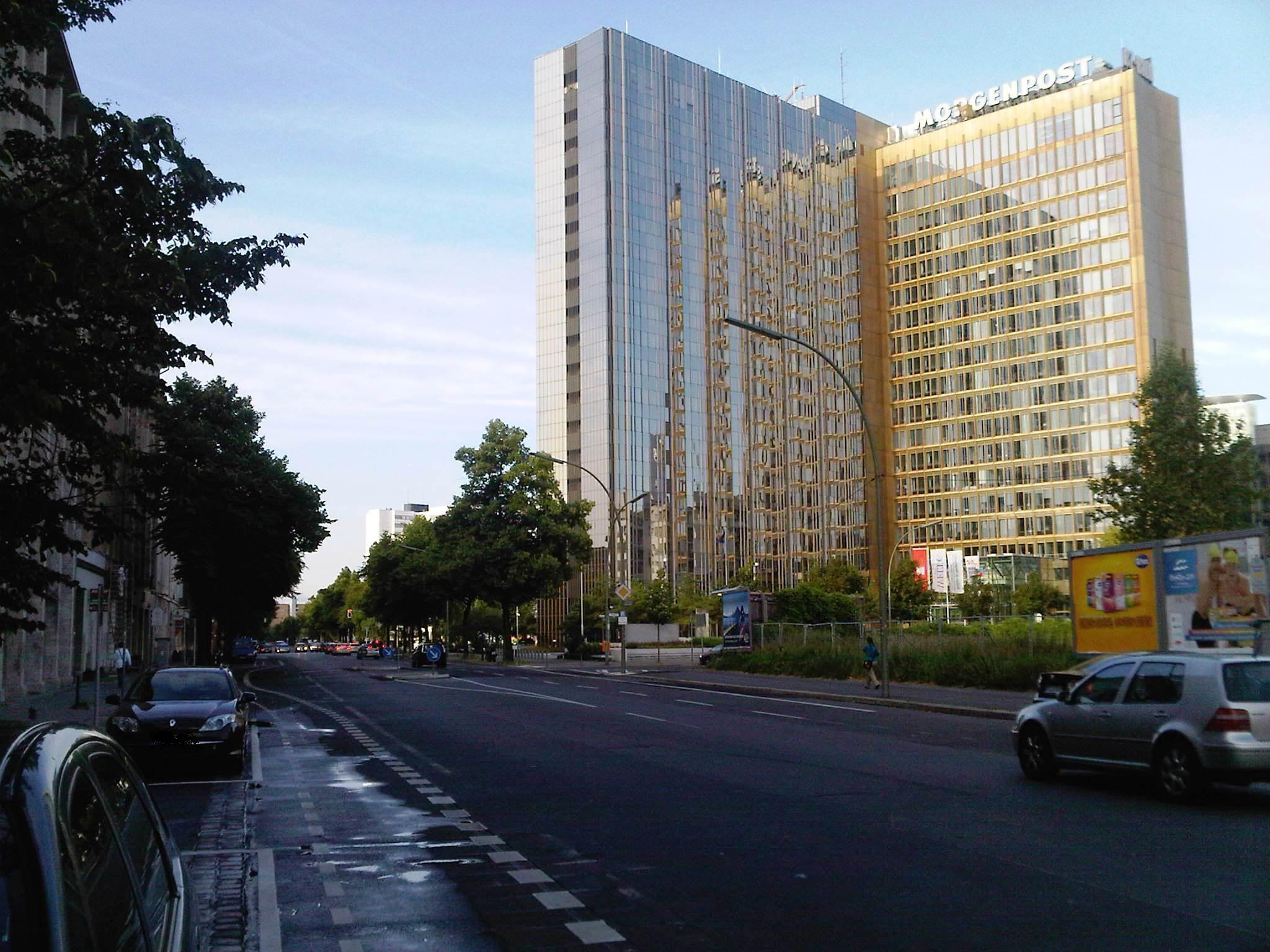 Look at the Axel-Springer-Strasse with the Axel Springer building in Berlin (July 2011)